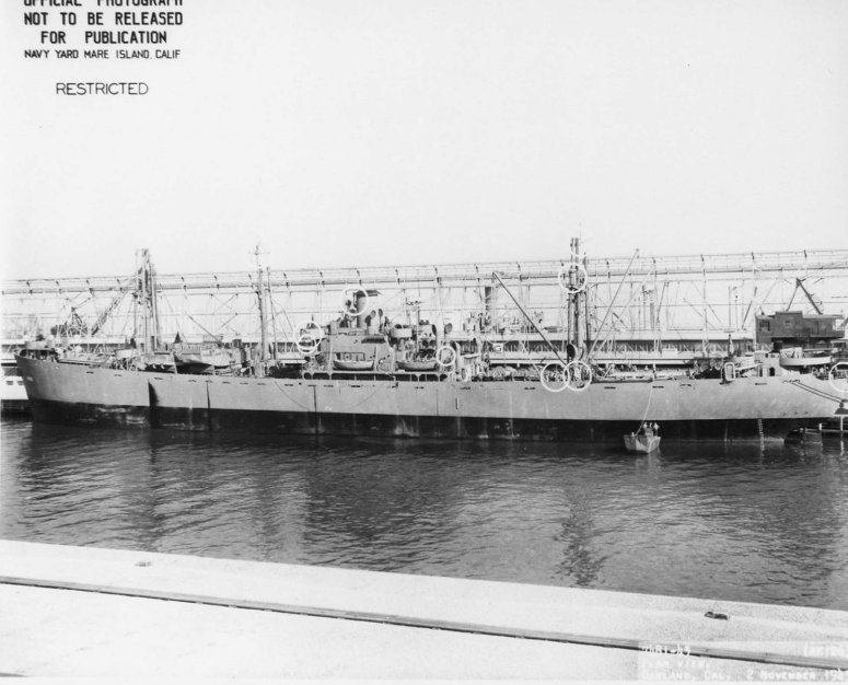 Megrez (AK-126) (plan view - aft) after conversion to US Naval service at Oakland, CA., 2 November 1943. Navy Yard Mare Island photo # 7481-43, 11/2/43